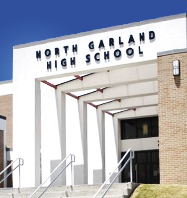 Front Entry on Buckingham Rd of North Garland High School